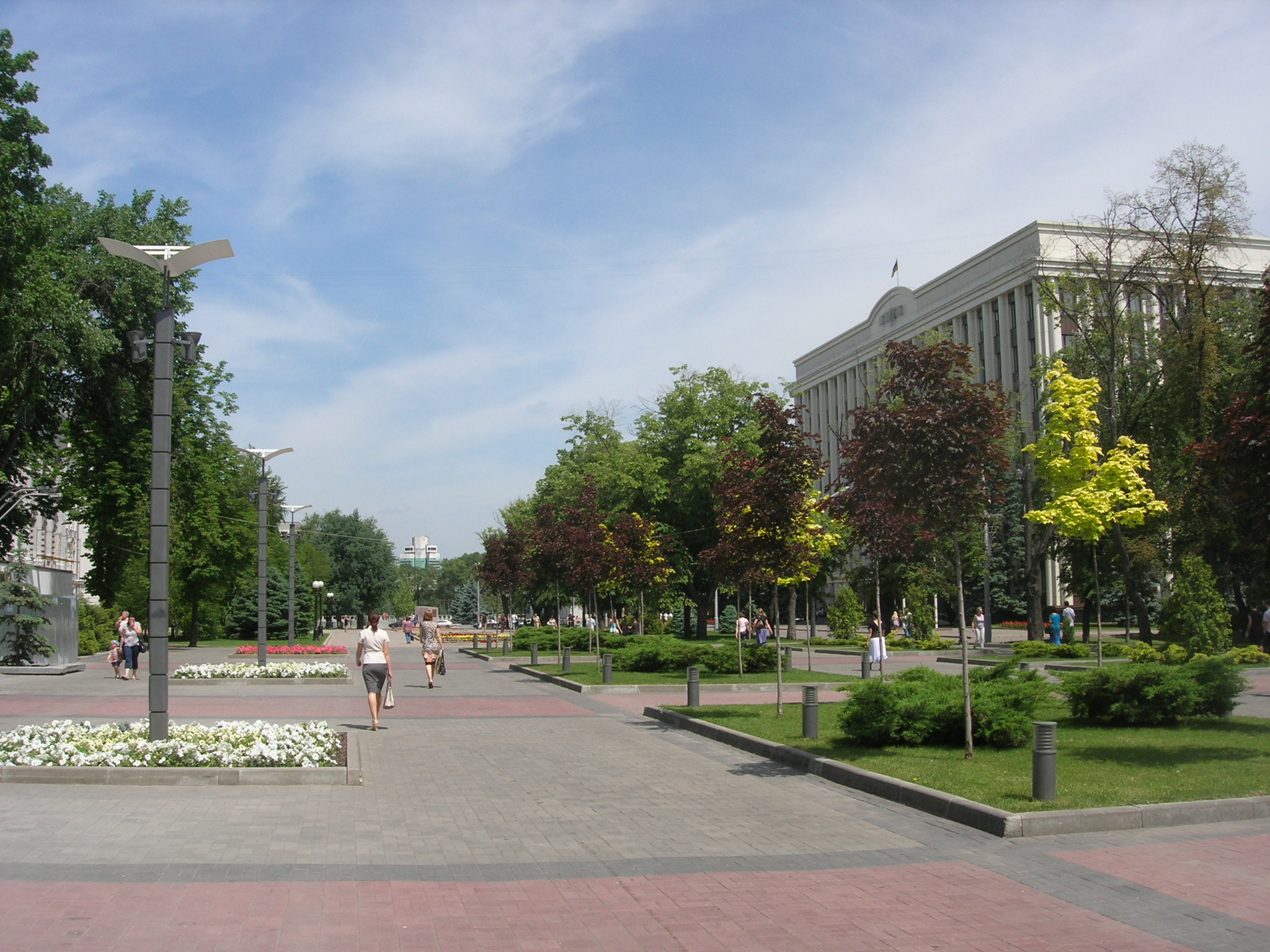 Building Dnipropetrovsk Regional Administration, Dnipropetrovsk, Kirov Prospect 1